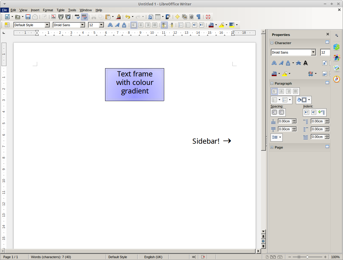 LibreOffice 4.1.5, Windows version running in Wine on Xubuntu. Shown are the sidebar, and a text frame with a colour gradient.